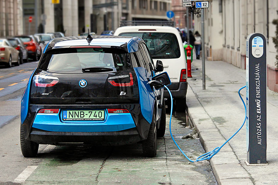 BMW i3 charging in Budapest, Hungary.